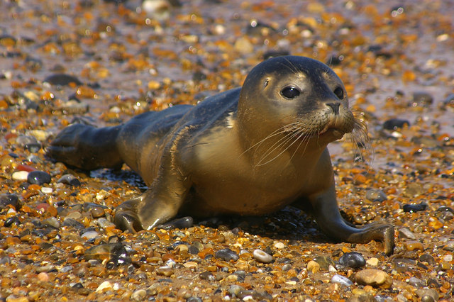 Young common seal on beach at Cley Eye. This young common seal (or harbour seal) - Phoca vitulina - was alone on the shoreline. For a long time it remained very still, with only slight movements, suggesting that it had a problem (the photo was taken at one of its slightly more alert moments). Also, it seemed unaffected by people (and dogs) approaching it (although fortunately it was well away from the main access point to the beach so passers by were few, and those with dogs were happy to put them on leads so as to keep them away from the seal). Eventually, as the tide started coming in, it shifted itself up the beach a couple of metres, suggesting that it was in fact physically fine. If it lifted its head, one could see a lot of red under its mouth, and it may well have been that it had gorged itself on fish (throughout the time we were watching it, there was a flock of common terns feeding just offshore, suggesting a rich shoal), and was simply incapable of moving. Even so, the fact that it was clearly a youngster, and alone, was cause for concern (presumably it had come from the colony on Blakeney Point, but had become separated). We therefore alerted the nearby Norfolk Wildlife Trust Cley Marshes reserve centre (which includes this stretch of beach). They in turn contacted the seal rescue centre at Winterton, who were going to send someone out, to at least check the seal out. Incidentally, the photo was taken with a 320mm lens, to avoid approaching too close!